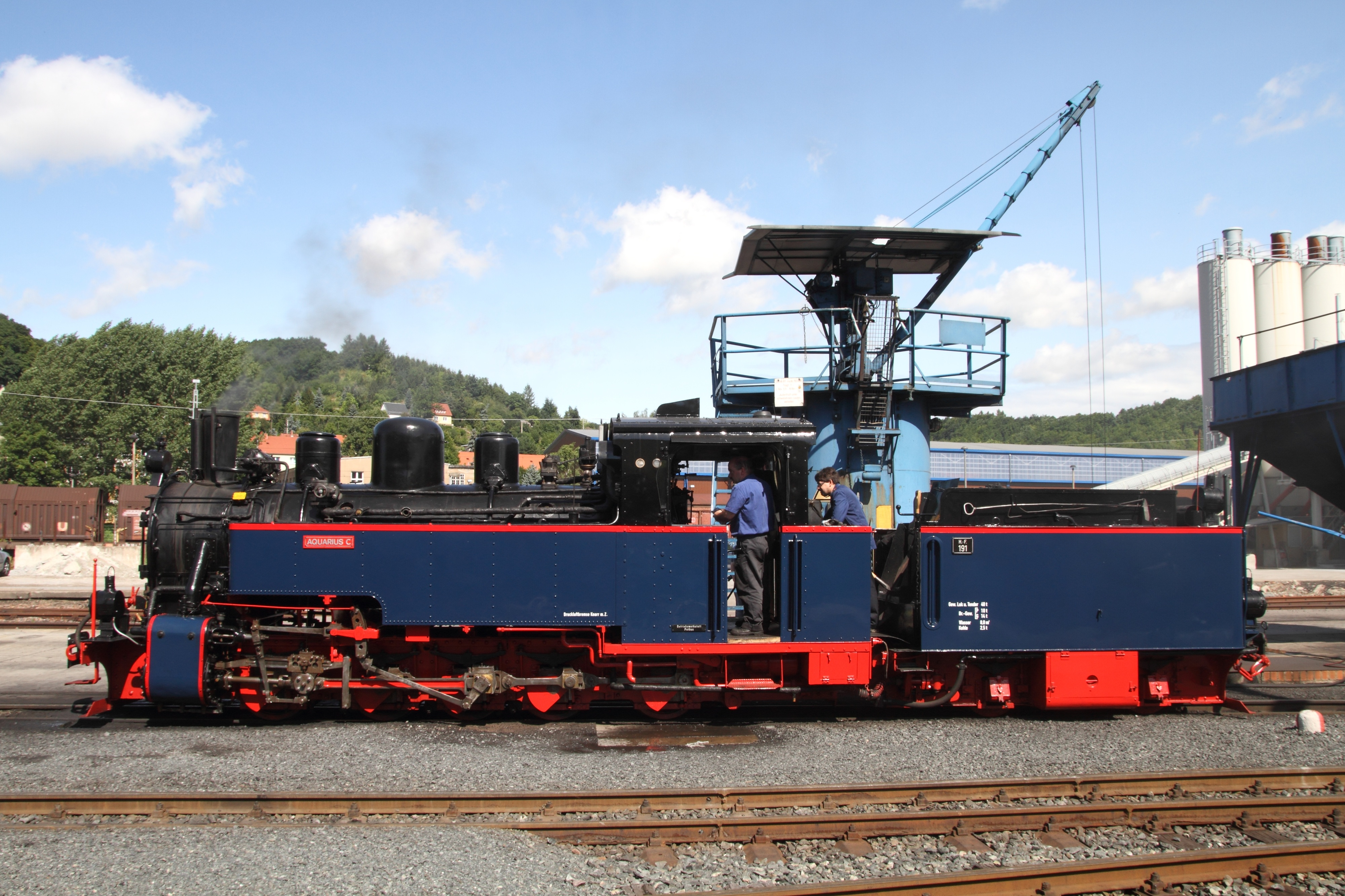 HF 210 E "Aquarius C" (ex SKGLB 22, ex Zillertalbahn 4) at Freital-Heinsberg, Weißeritztalbahn